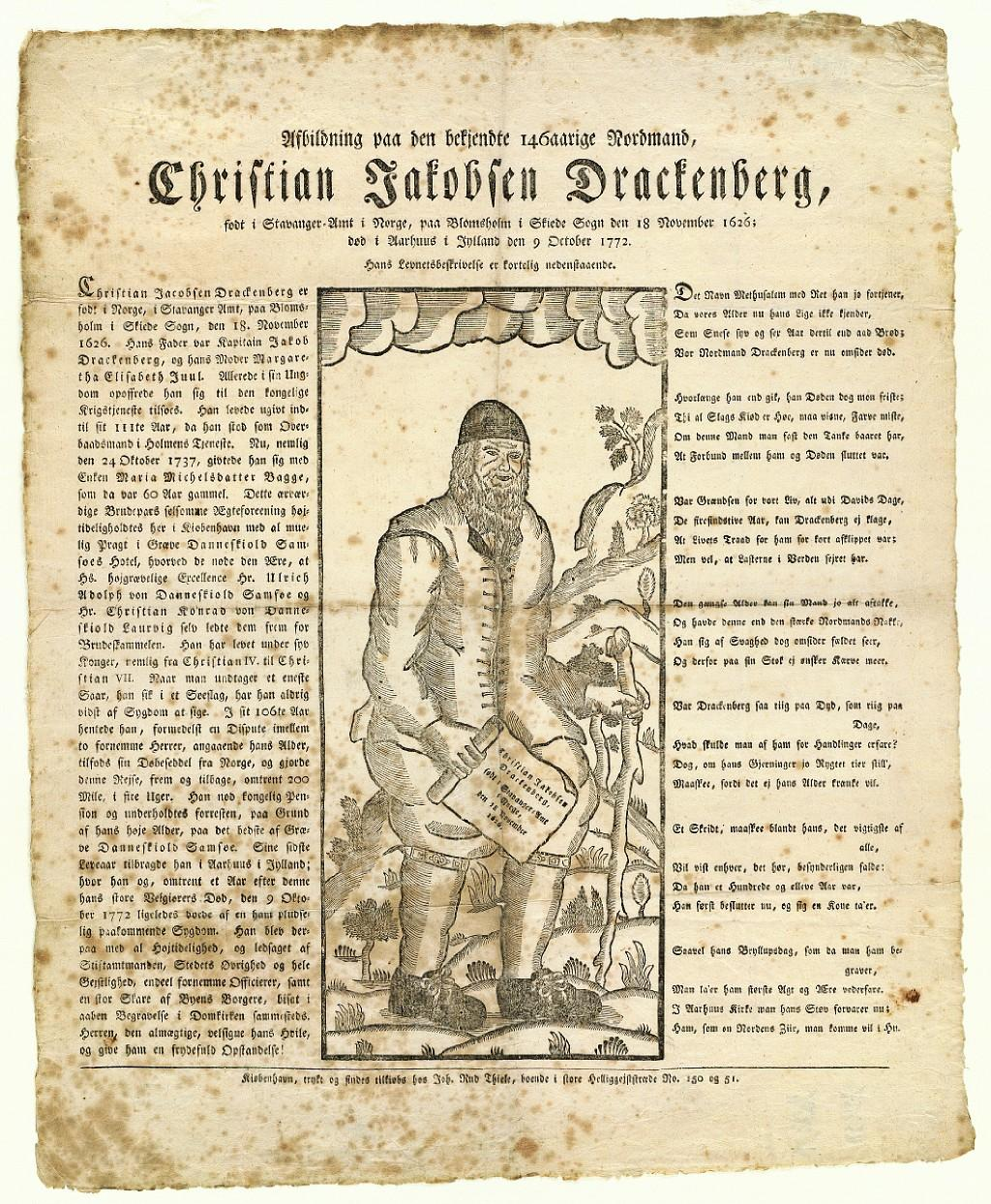 Christian Jakobsen Drackenberg from Norway, 146 years old. Born at Blomsholm in Skiede Sogn 18 November 1626; died in Aarhuus in Jylland den 9 October 1772.